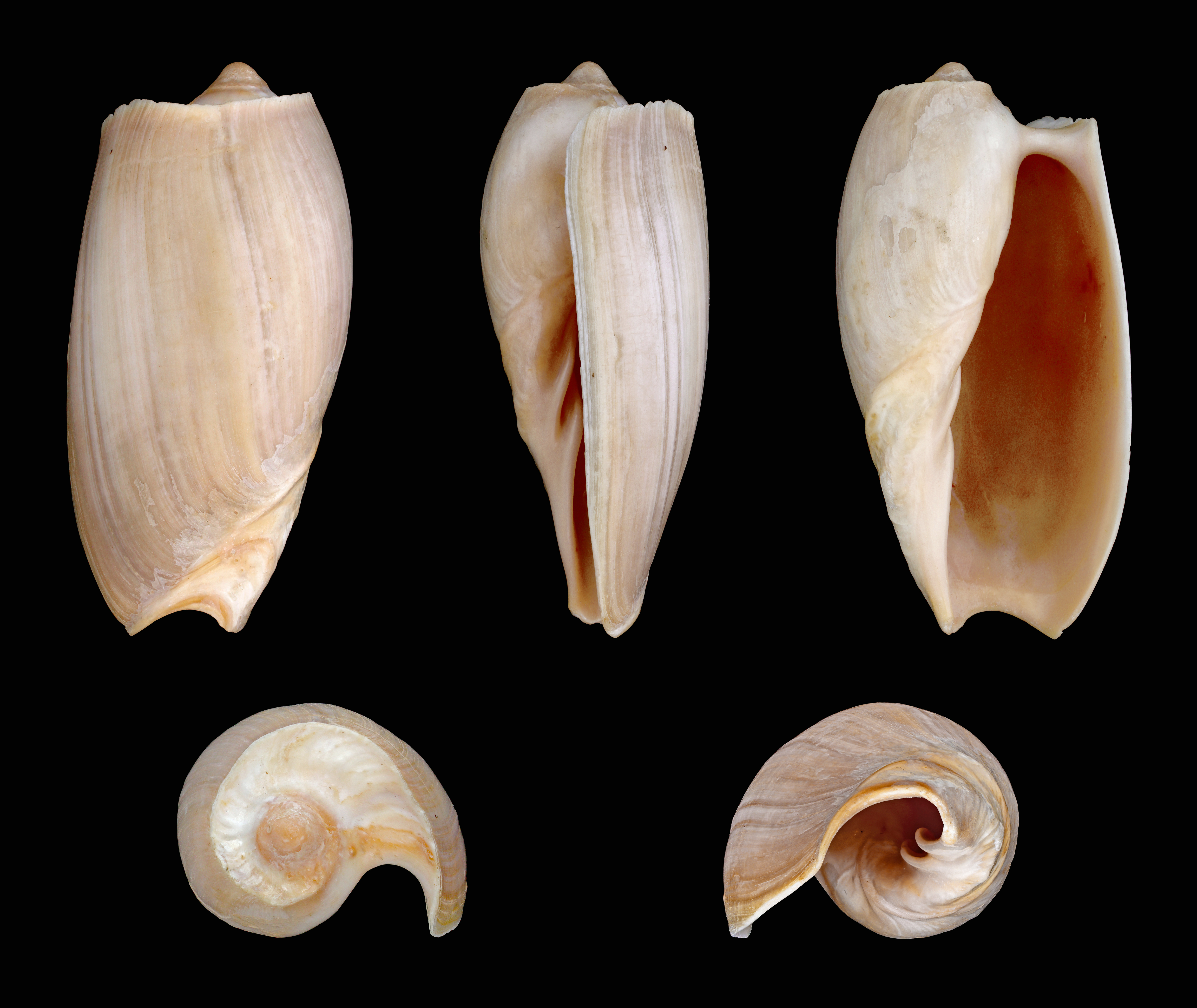 Soulie's Volute, Length 8.8 cm; Originating from the Atlantic coast of West Africa; Shell of own collection, therefore not geocoded. Dorsal, lateral (right side), ventral, back, and front view.